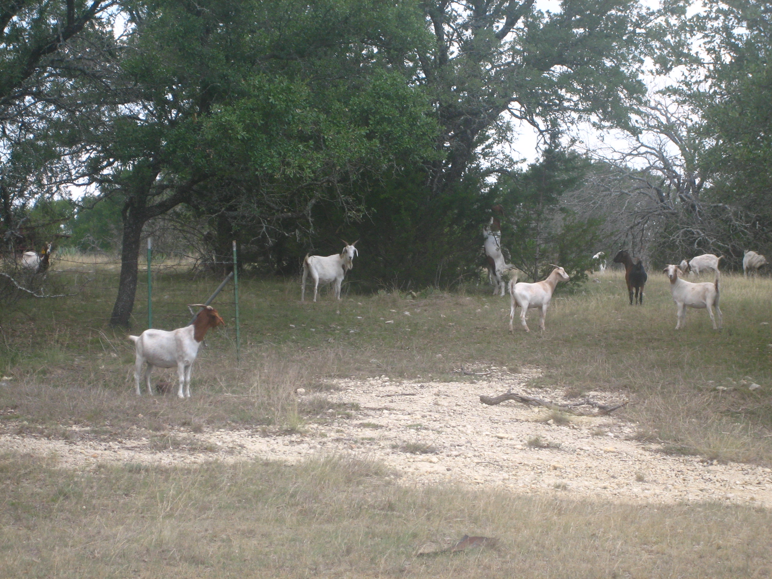 I took photo on July 17, 2008.Billy Hathorn (talk) 14:04, 26 July 2008 (UTC)